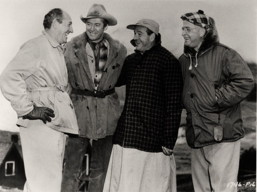 L. to R. : Aaron Rosenberg (producer), James Stewart, Anthony Mann (director) & William H. Daniels (cinematographer) on the set of The Far Country - publicity still